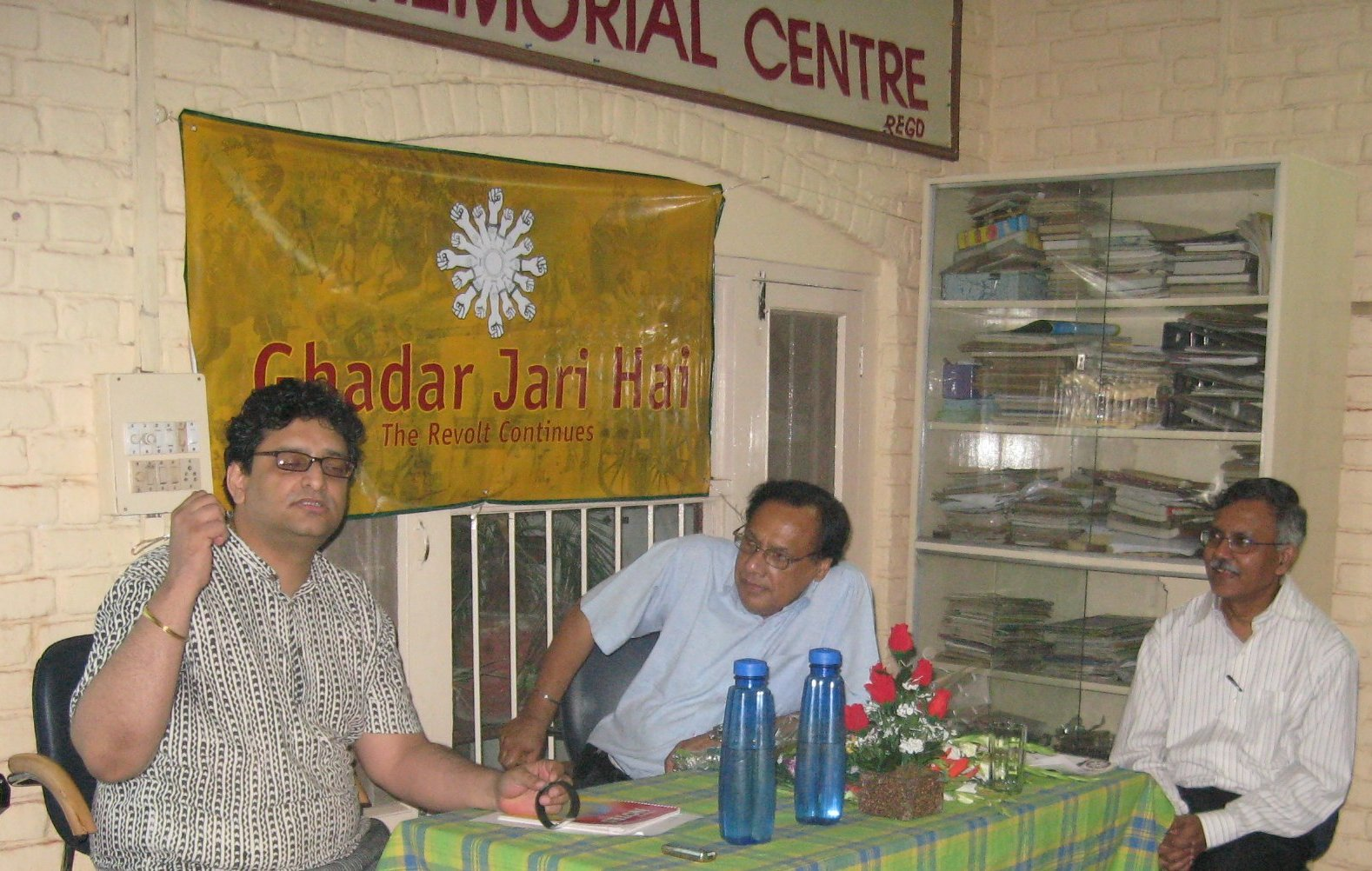 Delivering a brief talk on the launch of the website, the online presence of the 'ghadar jari hai' magazine. 'Ghadar' is a hindi word that literally means 'rebellion' or 'revolution'. Thus the magazine-title literally means "The Rebellion Continues." Dr. Ravinder S. Bisht, had just made a stunning presentation on insights into the ancient civilization of the Indian sub-continent harappa Since the written script of the Harappan culture remains un-decoded, Bisht, who is an internationally noted archaeologist, as well as a sanskrit scholar, shared insights into Harappan culture from the ancient indian texts, 'Vedas' I spoke for just 7-minutes, on how the revolution of Indian culture to me is not about any struggle, but about our culture of 'sharing knowledge and seeking bliss' with the world that abides through thousands of years, and how we can take it forward in the digital age of the 21st century.